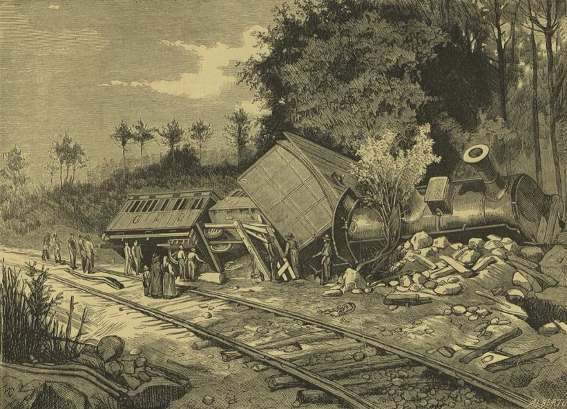 Deraiment of a train in the Linha do Minho (Minho Railway), in Portugal, on the 11th October 1878. This image was published on the Occidente magazine No. 21, of the 1st November 1878, and scanned by the Hemeroteca Municipal de Lisboa.